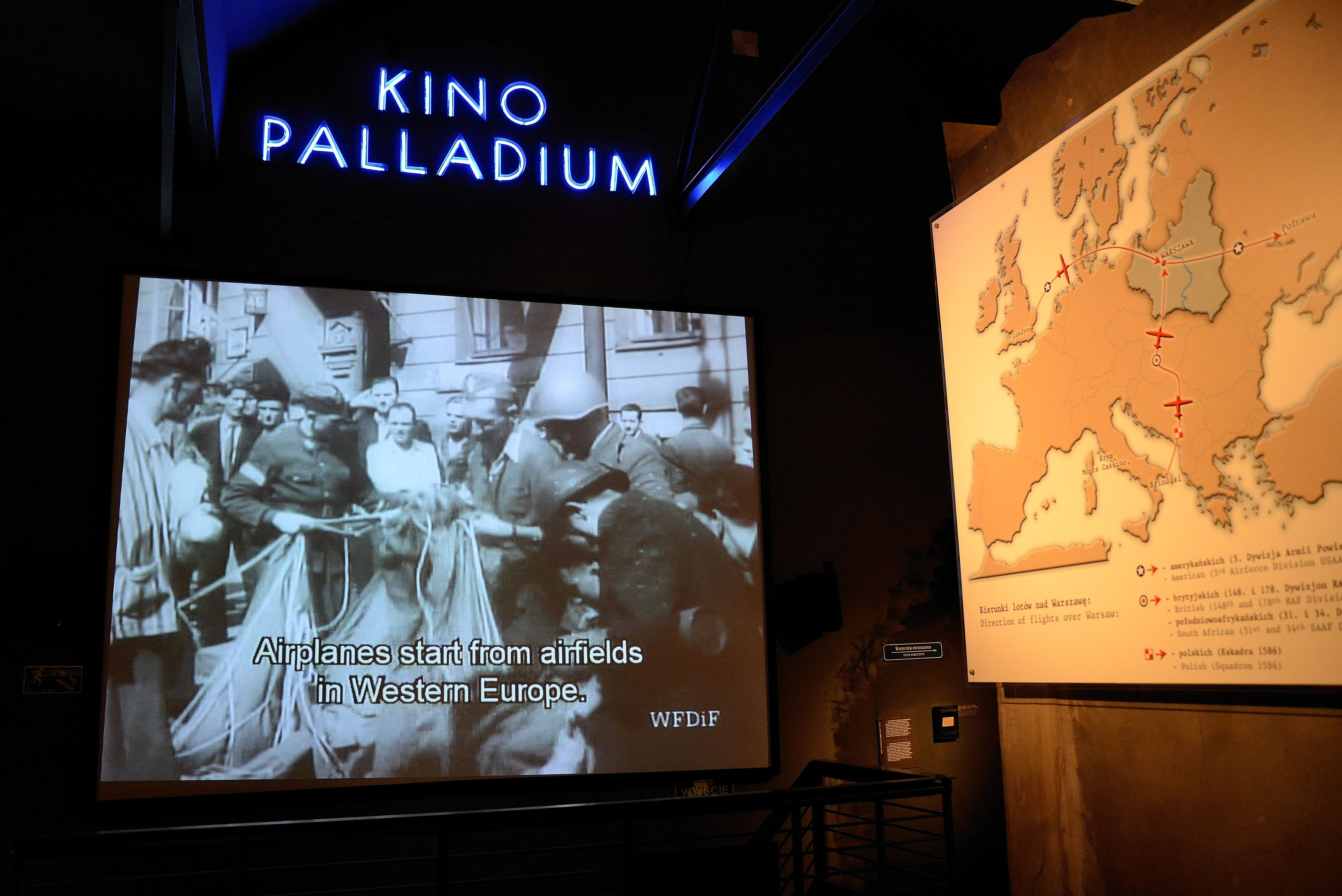 Warsaw Uprising Museum